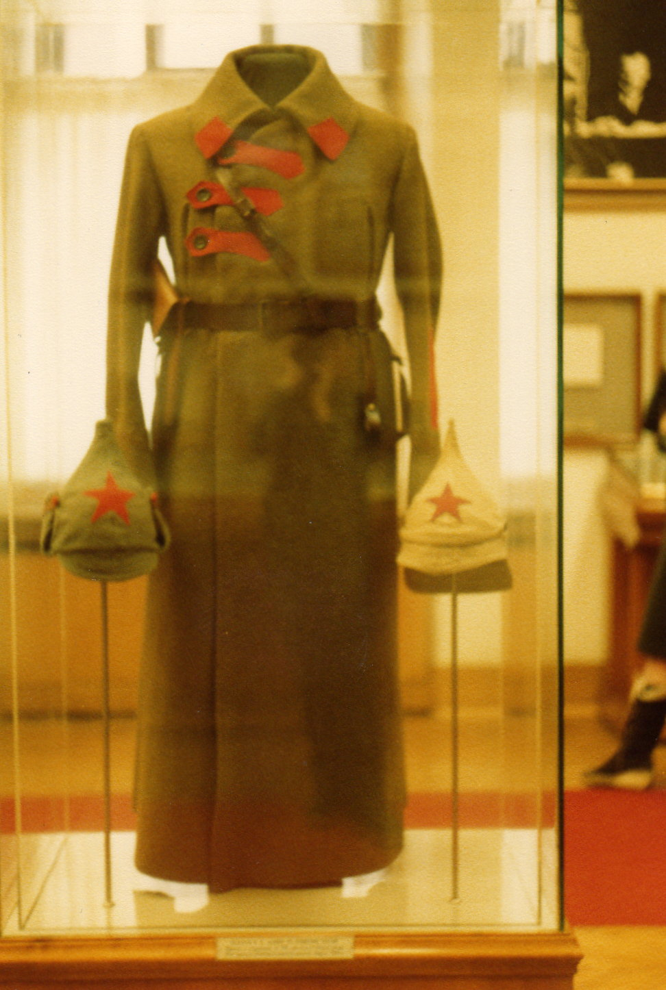 Early Red Army uniform, picture taken in a Moscow museum in February 1982